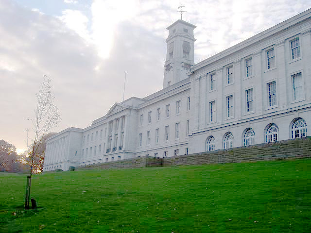 The Trent Building of Nottingham University.